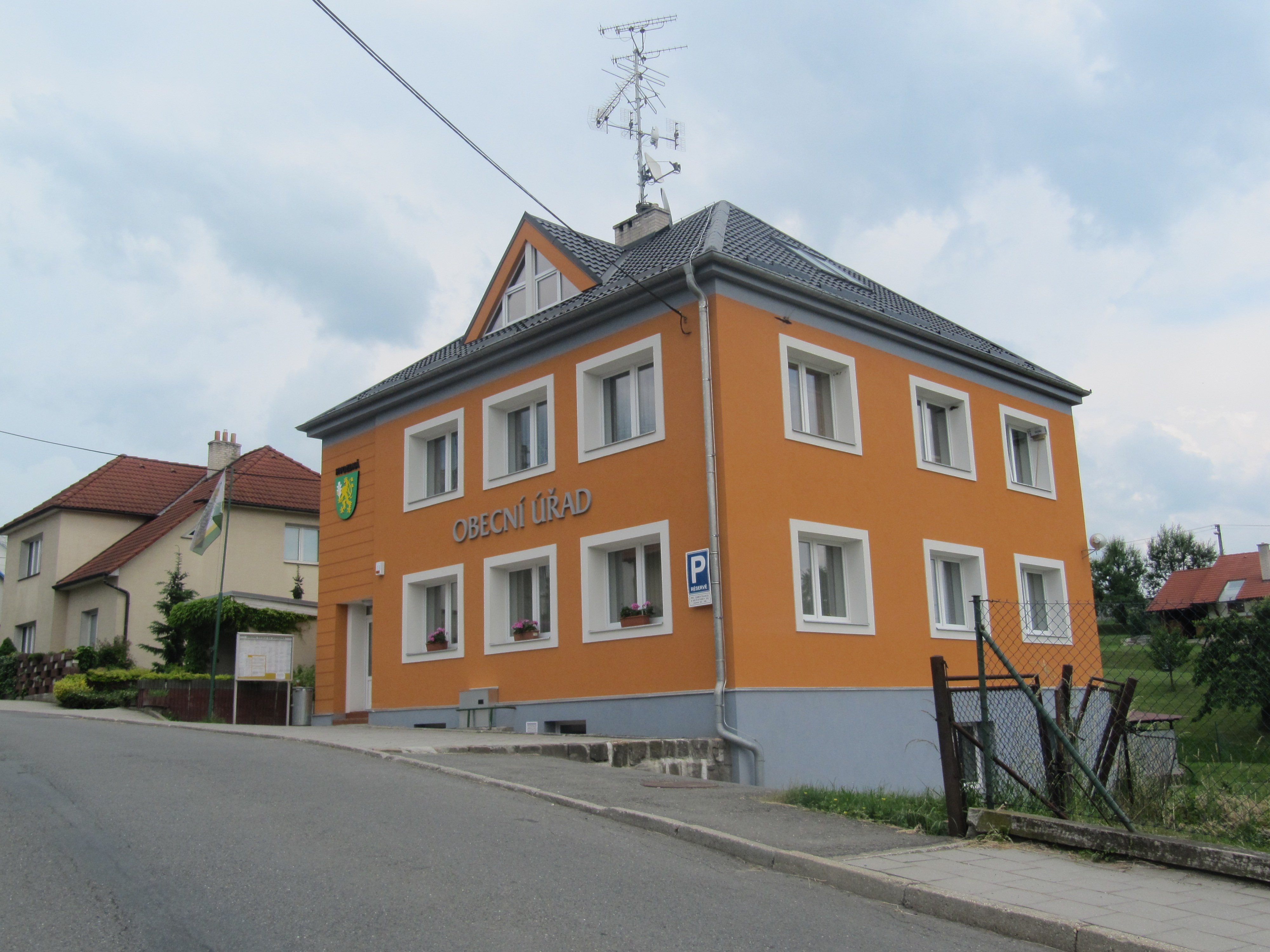 Hvozdná in Zlín District, Czech Republic. Municipal ofice. This photograph was taken within the scope of the third year of the 'Czech Municipalities Photographs' grant.